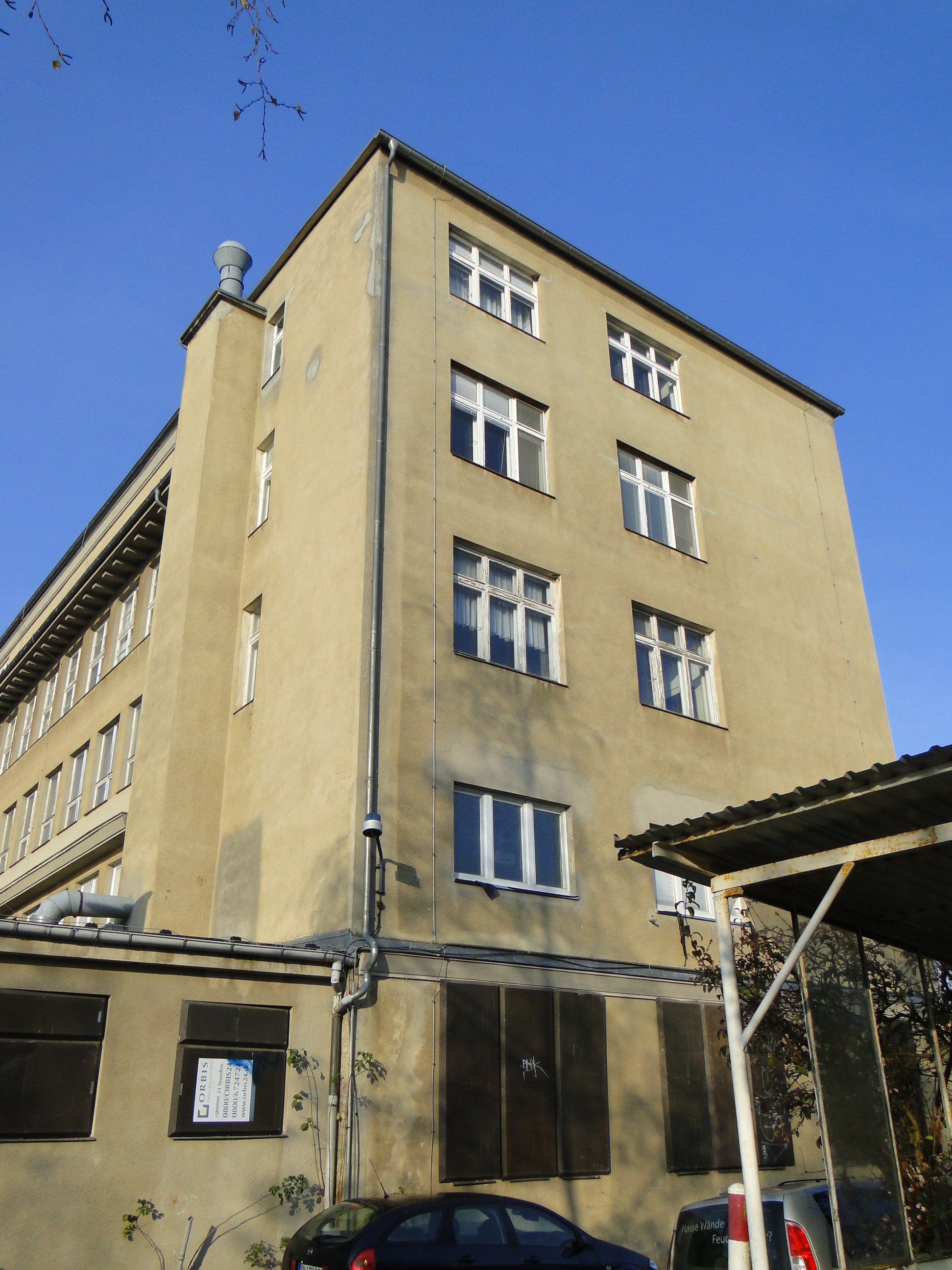 Former district hospital in the street Werderstraße in Schwerin, Mecklenburg-Vorpommern, Germany